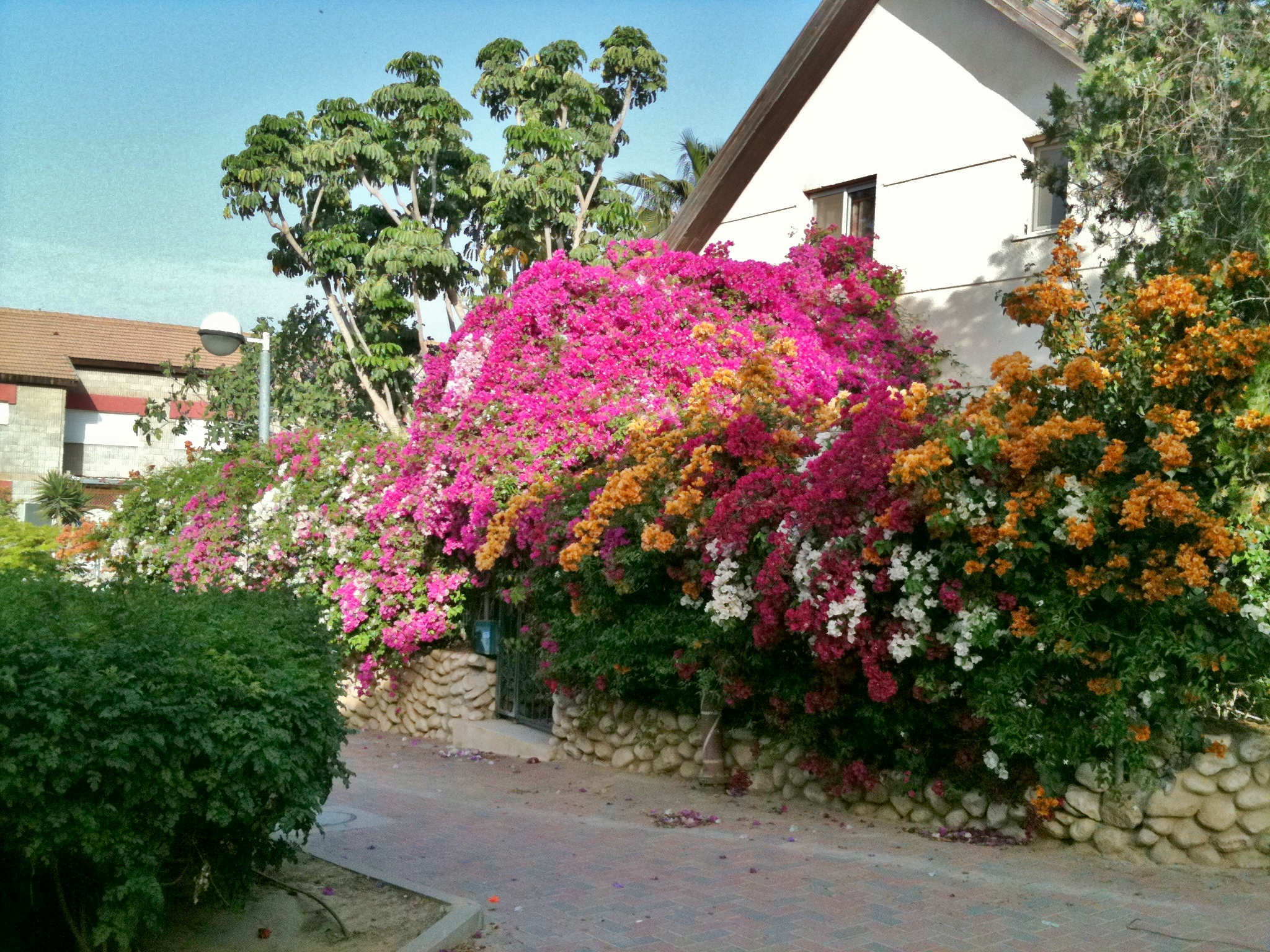 Ramot, BeerSheba